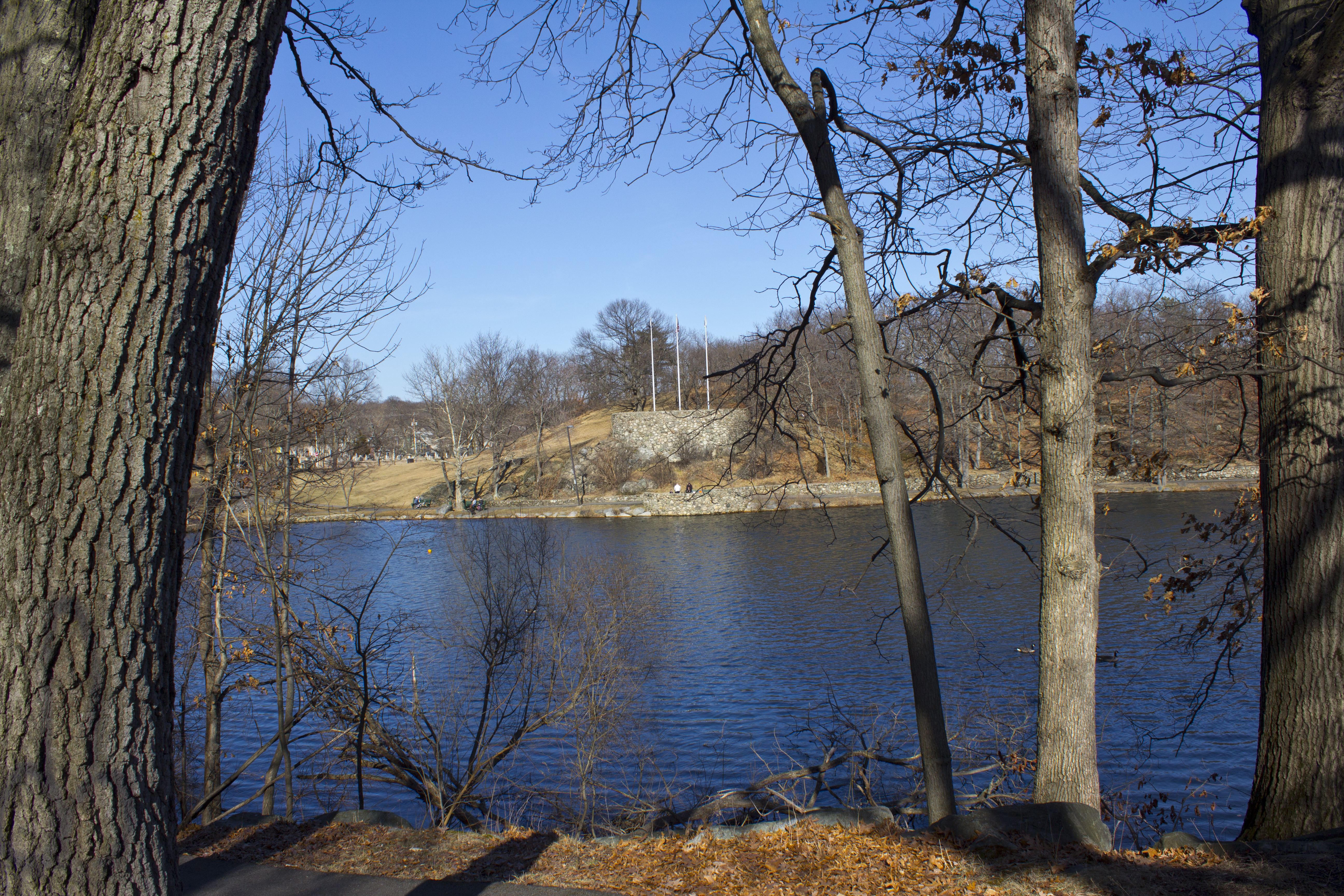 Taken on early 2012 photo excursion.